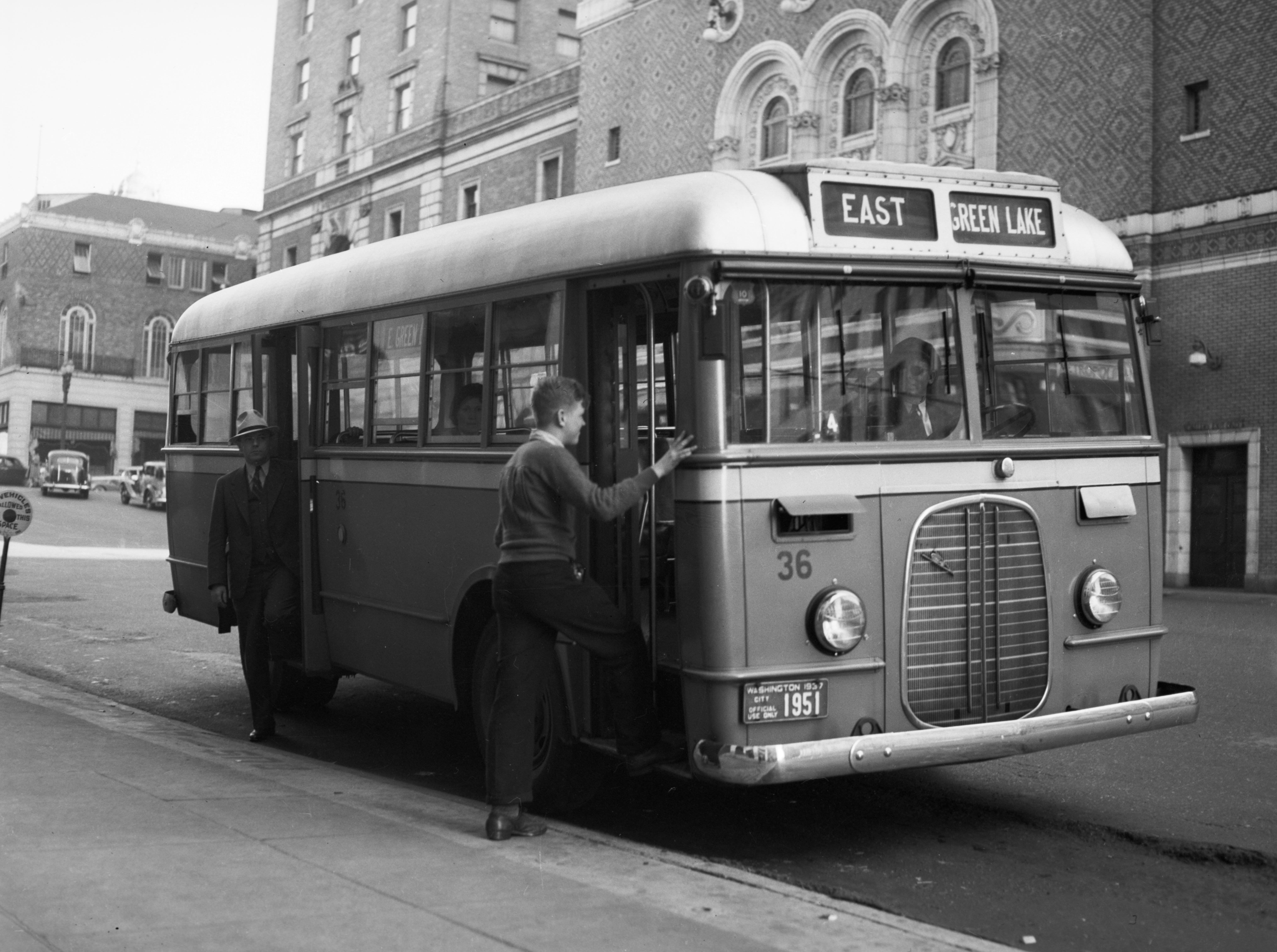 Seattle bus 36, a 1937 Ford "Transit Bus" (a front-engined design), photographed in 1937. It is at a stop westbound on University Street between 5th and 4th avenues. The lefthand portion of the building in the immediate background still stands, as part of the 1924-opened Fairmont Olympic Hotel (listed on the National Register of Historic Places), but the righthand portion – which in actuality was a separate building, the Metropolitan Theatre, opened in 1911 – was removed after the theatre's closure in 1954, and was replaced by an entrance courtyard for the hotel. The separate building in the lefthand background was demolished many years ago and the site is now occupied by a plaza in front of the IBM Building. Item 11818, Engineering Department Photographic Negatives (Record Series 2613-07), Seattle Municipal Archives.